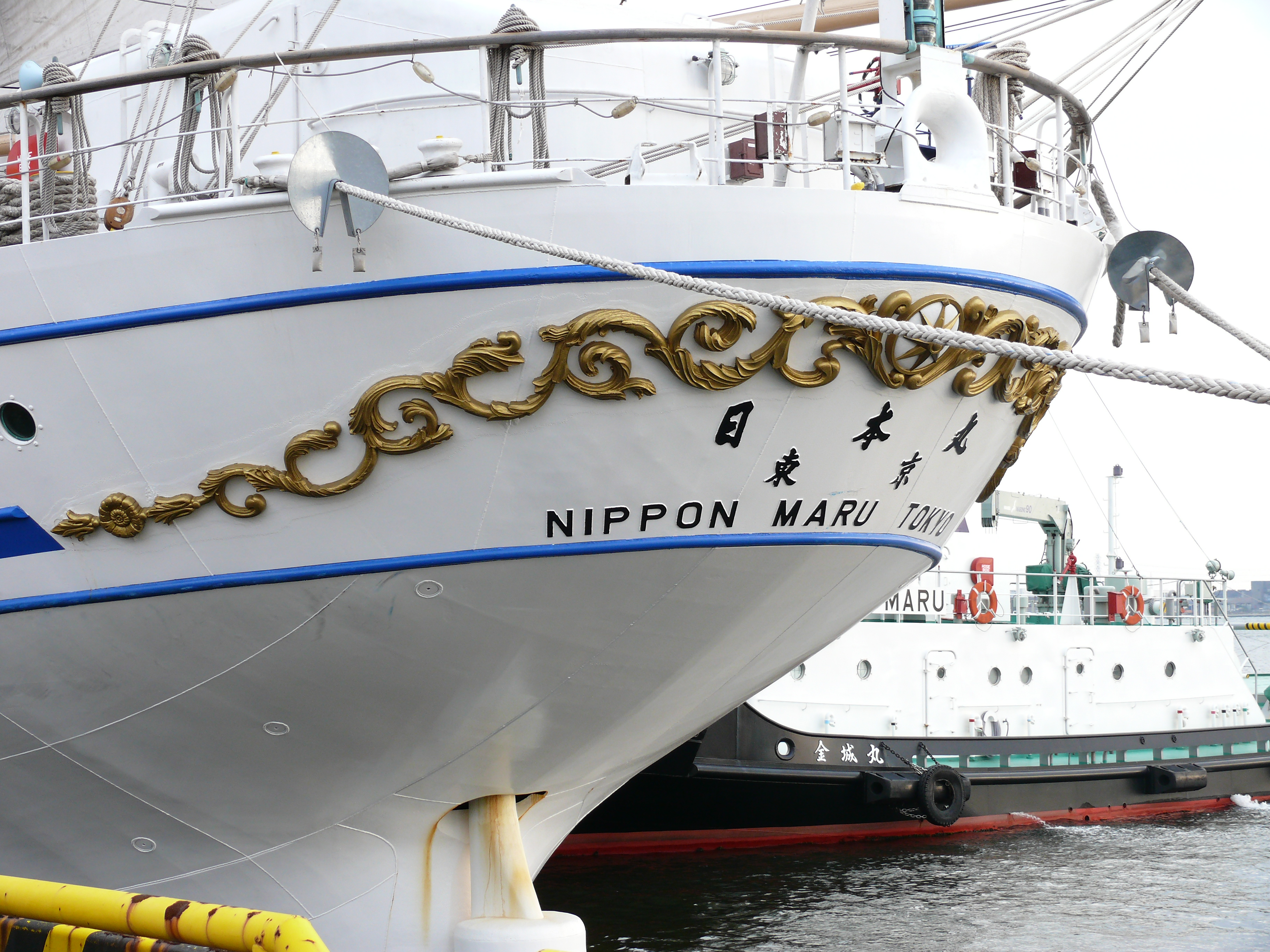 Nihonmaru II.